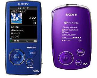 A comparison between Walkman NW-A800 (left) and NW-A1000 (right). The picture was made by Shabranigdo Article: Walkman A810 Purpose: To illustrate a object/objects